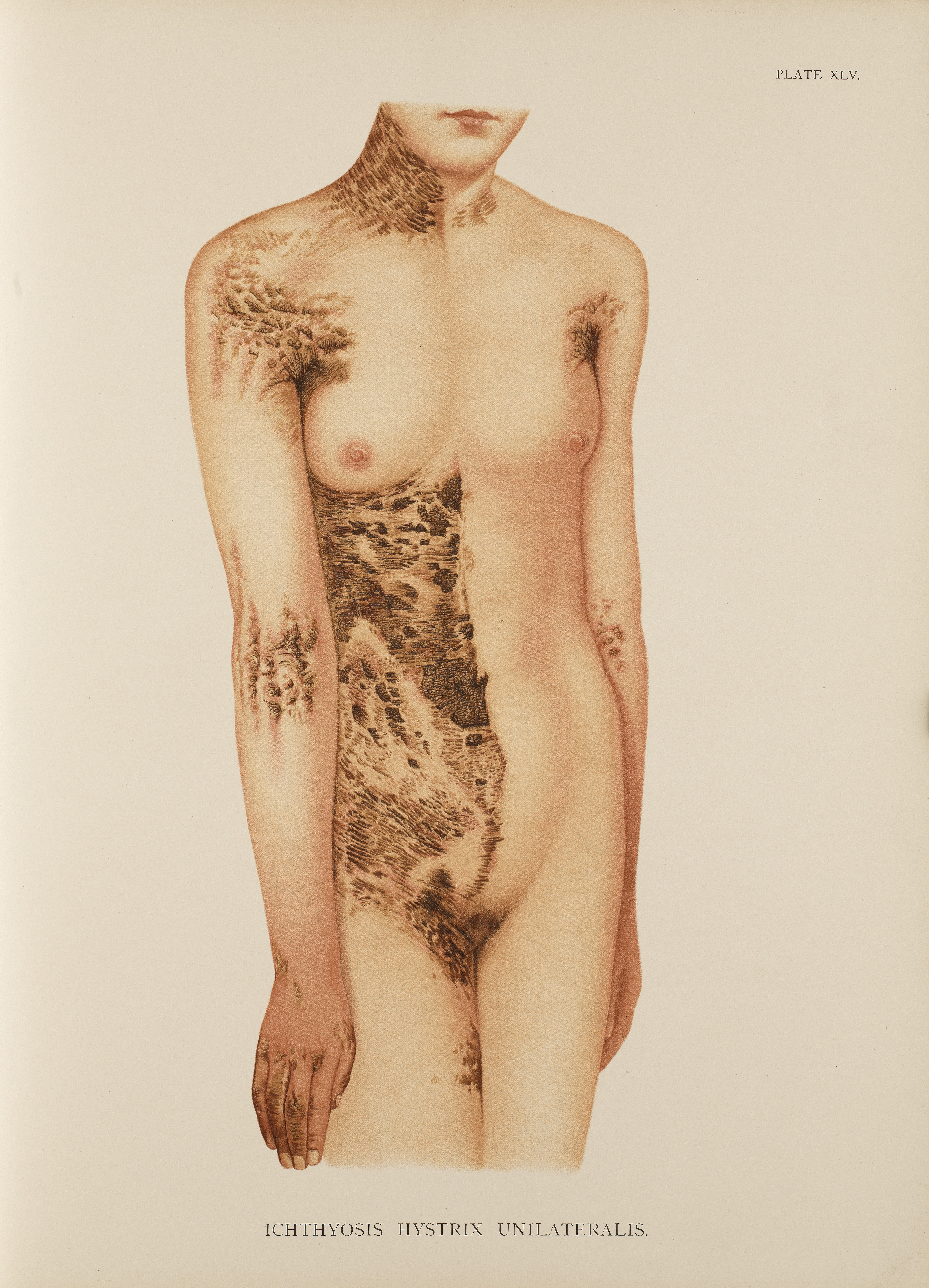 Plate XLV female with Icthyosis unilateralus, chin to upper thigh including arms General Collections Keywords: Shoulder; Woman; Neck; Skin Diseases; Nude; Abdomen; Thigh; Breast; Ichthyosis; Elbow; Human Body; Women